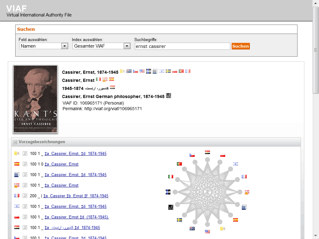 Virtual International Authority File (VIAF): Screenshot (Browser: Chrome, Vers. 19.0).